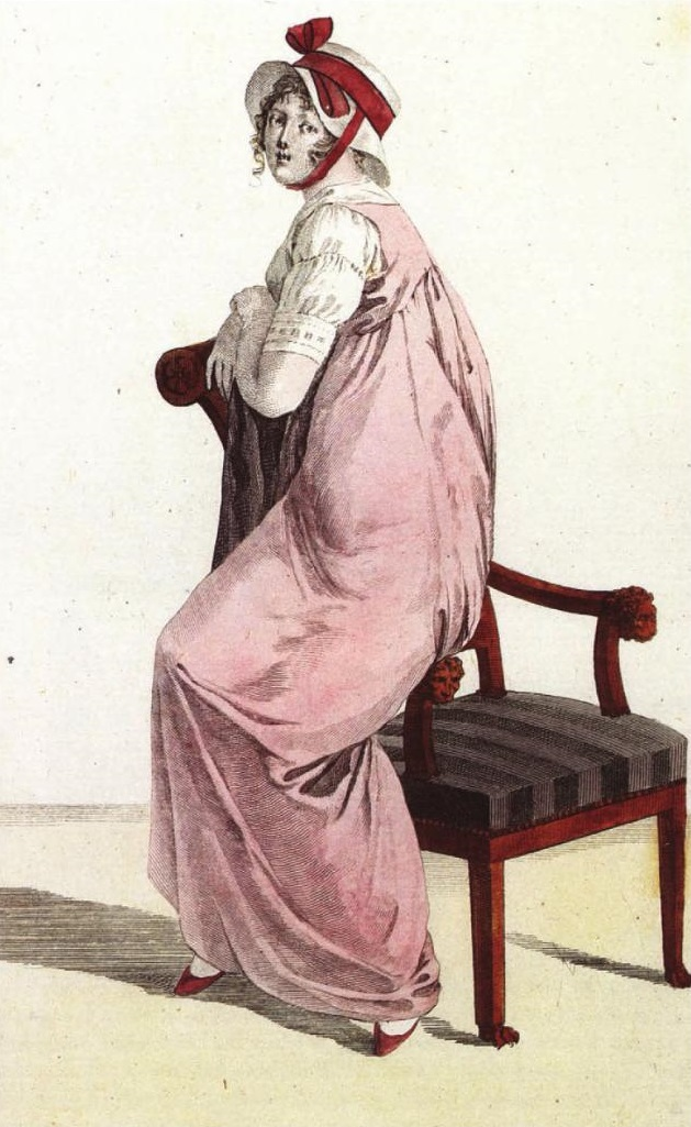 Chapeau à la Paméla. A woman perched on the arm of a chair wearing a straw Pamela bonnet with red ribbons and a pink overdress with white short-sleeved underdress or blouse. Published in the fashion magazine Costumes Parisien, 1801-2.